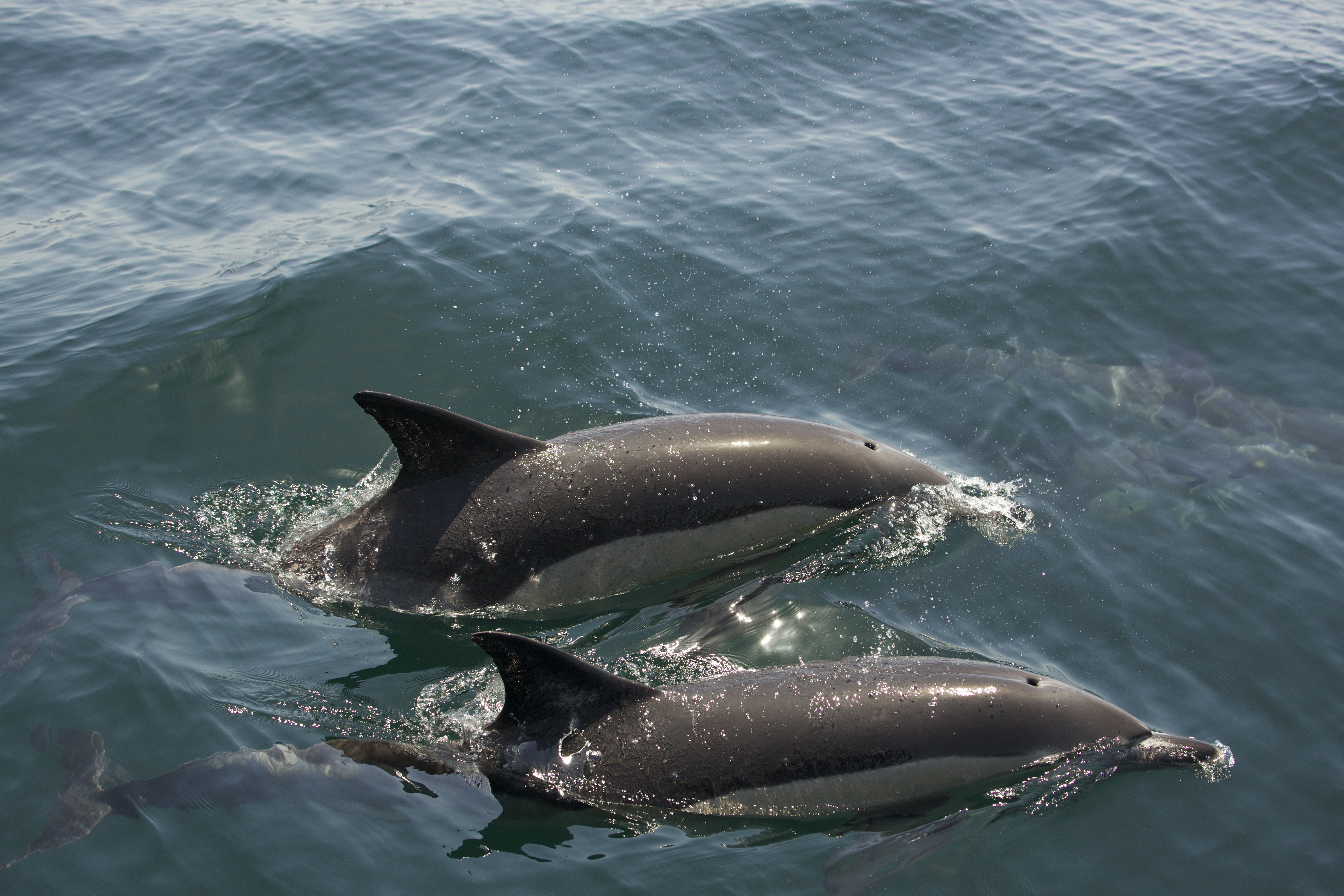 Common Dolphins in Gibraltar Bay on GBTW